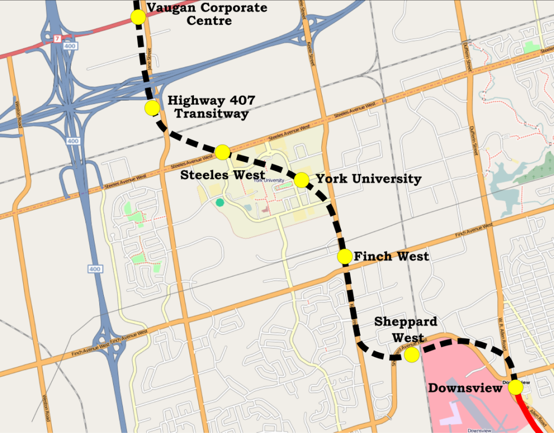 Map of the Yonge-University-Spadina subway line extension, currently under construction.